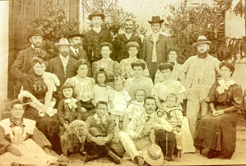 Management of Lugansk Cartridge Works with families.